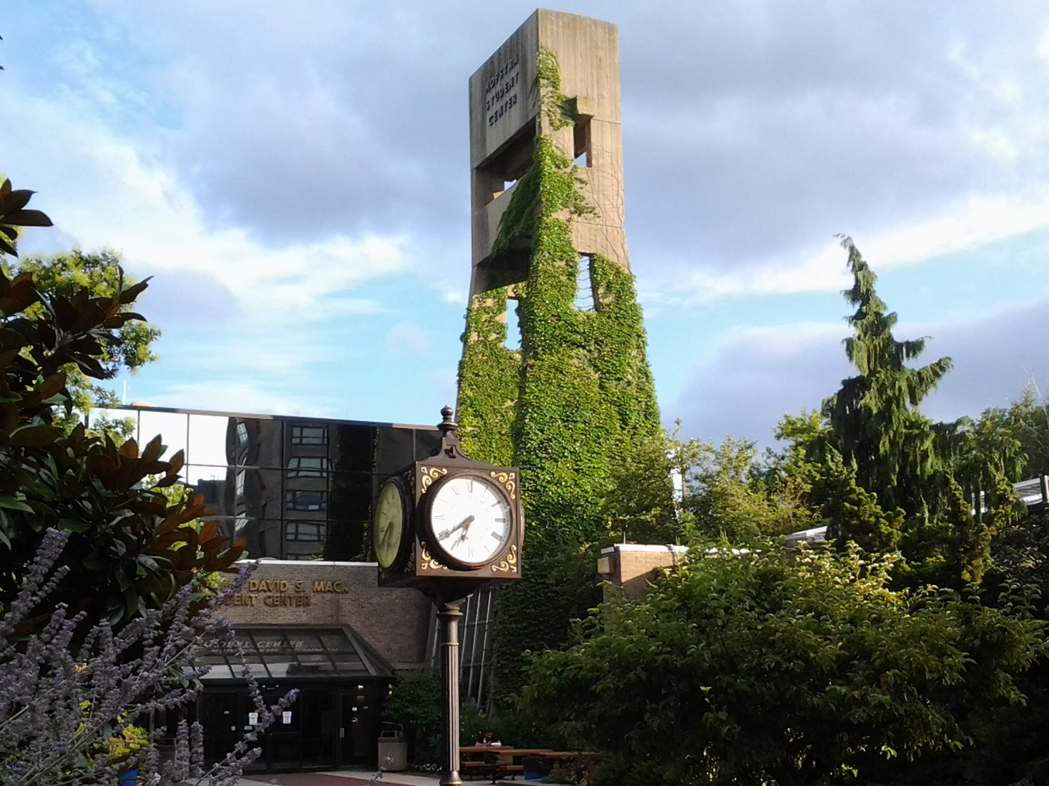 Hofstra University, Sondra & David Mack Student Center